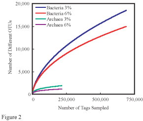 A rarefaction curve showing archaeal and bacterial diversity in the deep ocean.